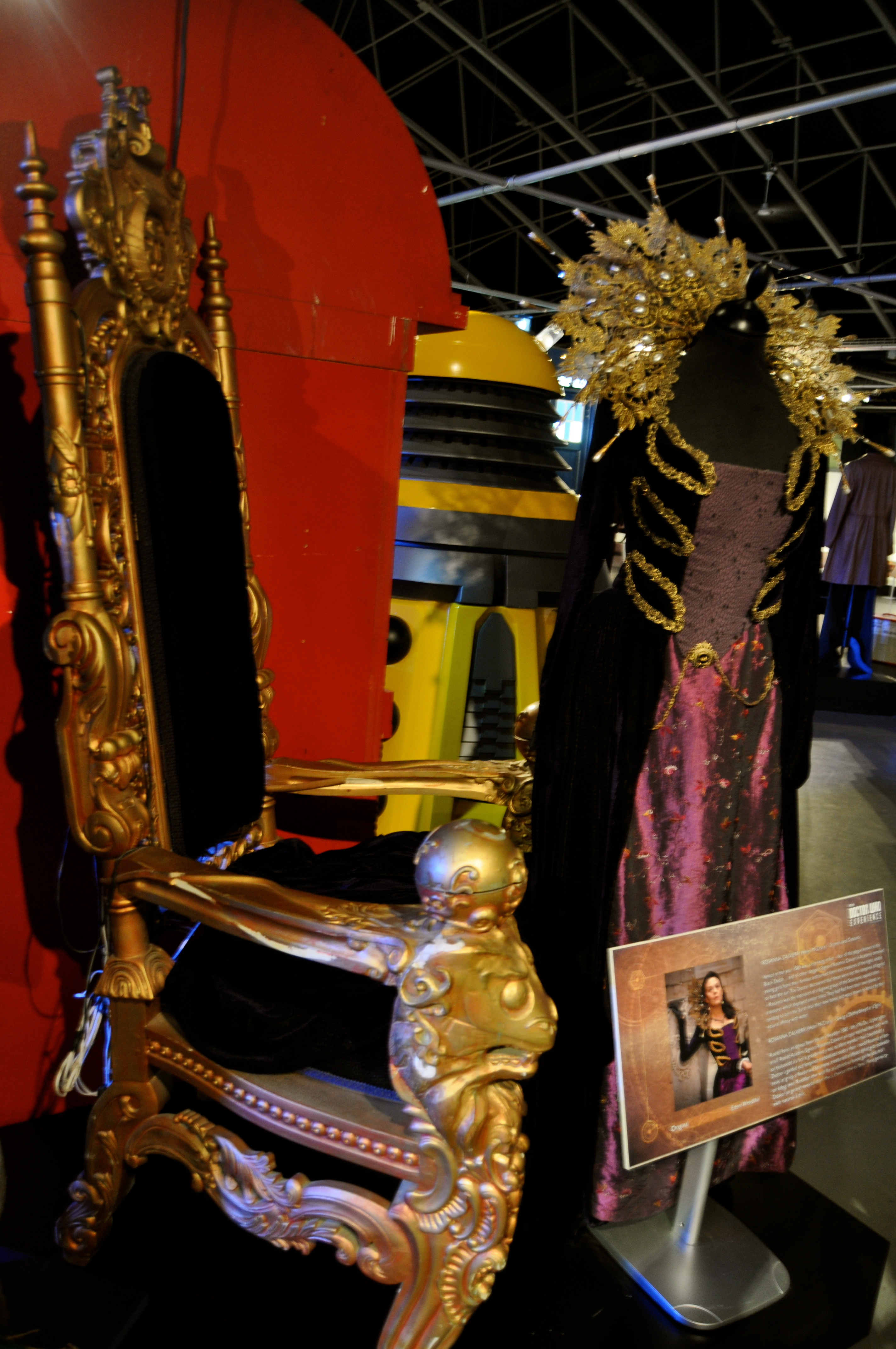 DWE Cardiff Bay, Port Teigr November 2016